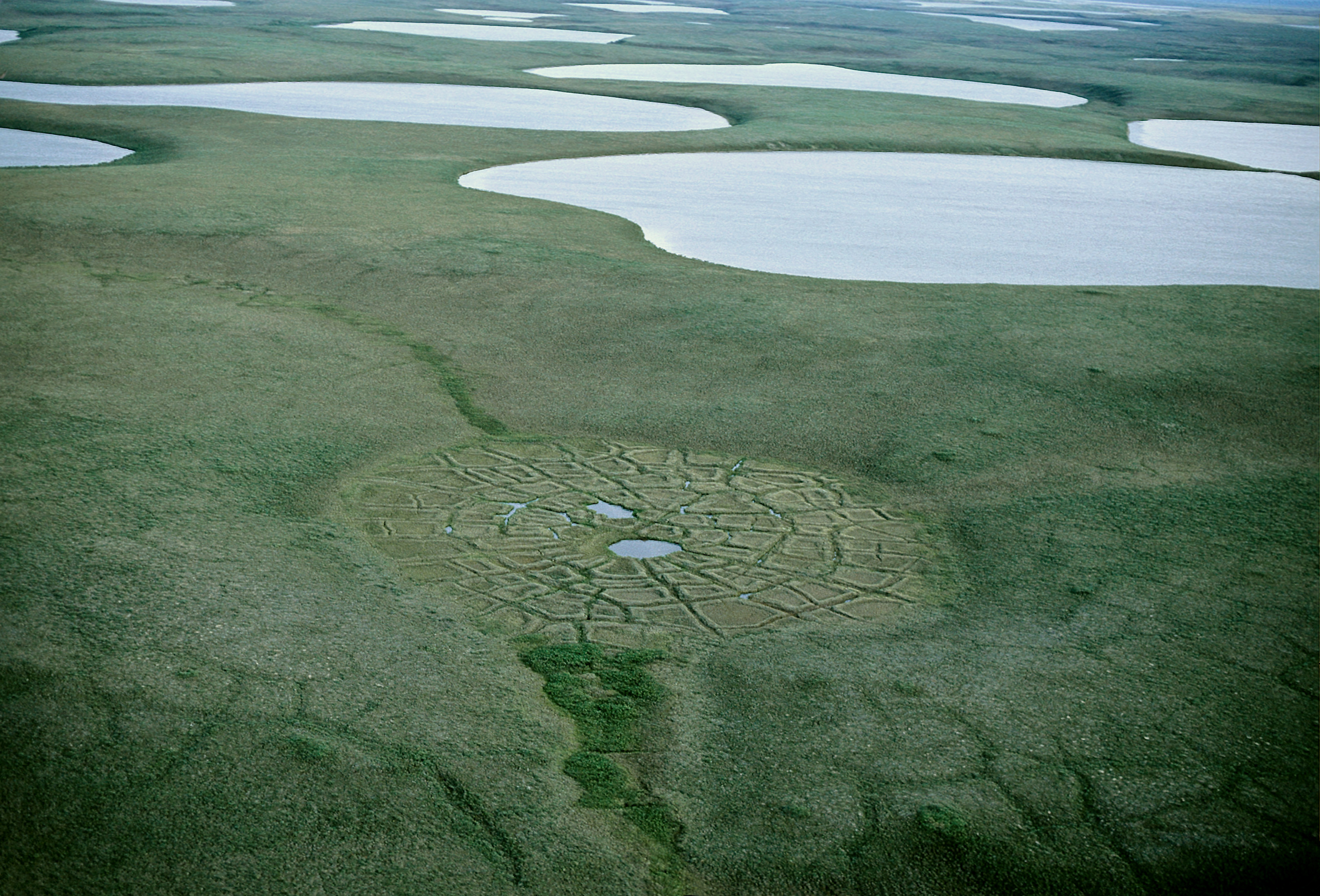 The Mackenzie delta is an area with thick continuous permafrost. However, unfrozen areas (taliks) may exist below the lakes shown. In the foreground, a small lake has been drained due to erosion (close to the coast). Ice-wedge polygons along contraction cracks slowly developed due to yearly freezing and melting cycles. This lake shows large low-centered polygons, more polygons can be recognized also between other lakes. Photo: Lorenz King, JLU_Giessen.de, August 7,1987